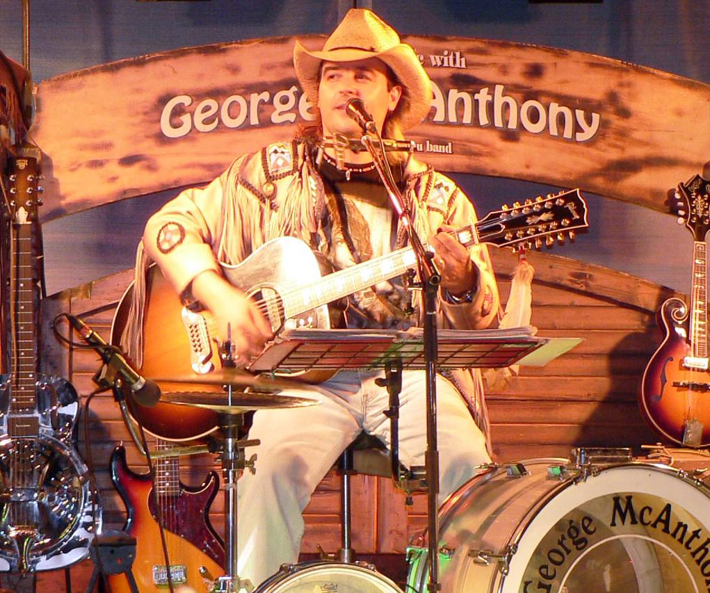 given to the PD my George McAnthony